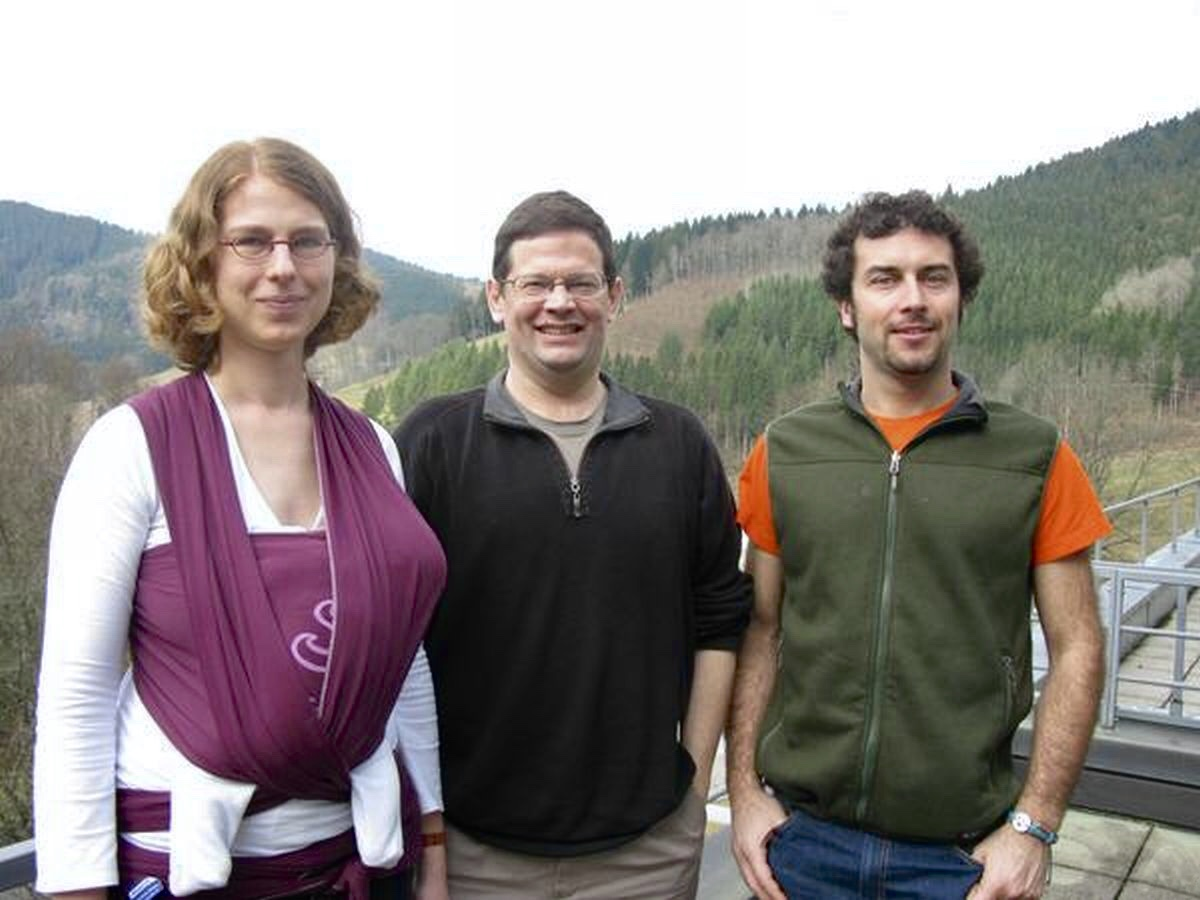 From left: Hannah Markwig, Aaron Bertram, Renzo Cavalieri, Oberwolfach 2012